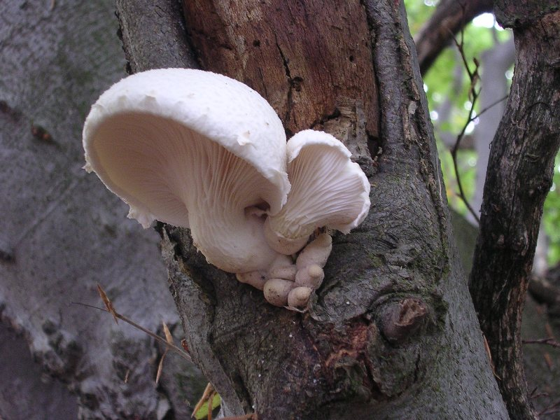 Pleurotus dryinus (Pers.: Fr.) Kummer